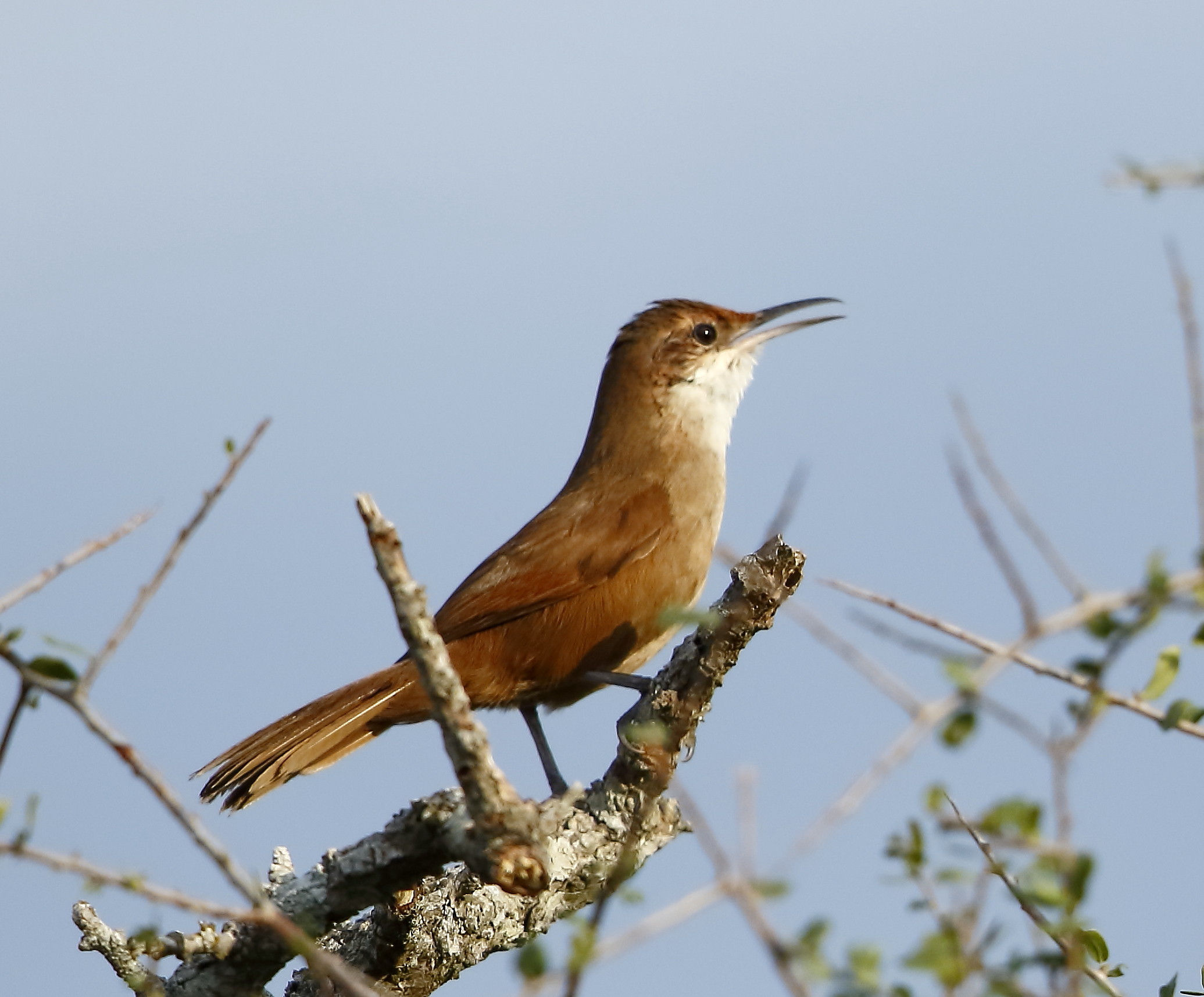 Chaco earthcreeper at Capivara - Santa Fe - Argentina